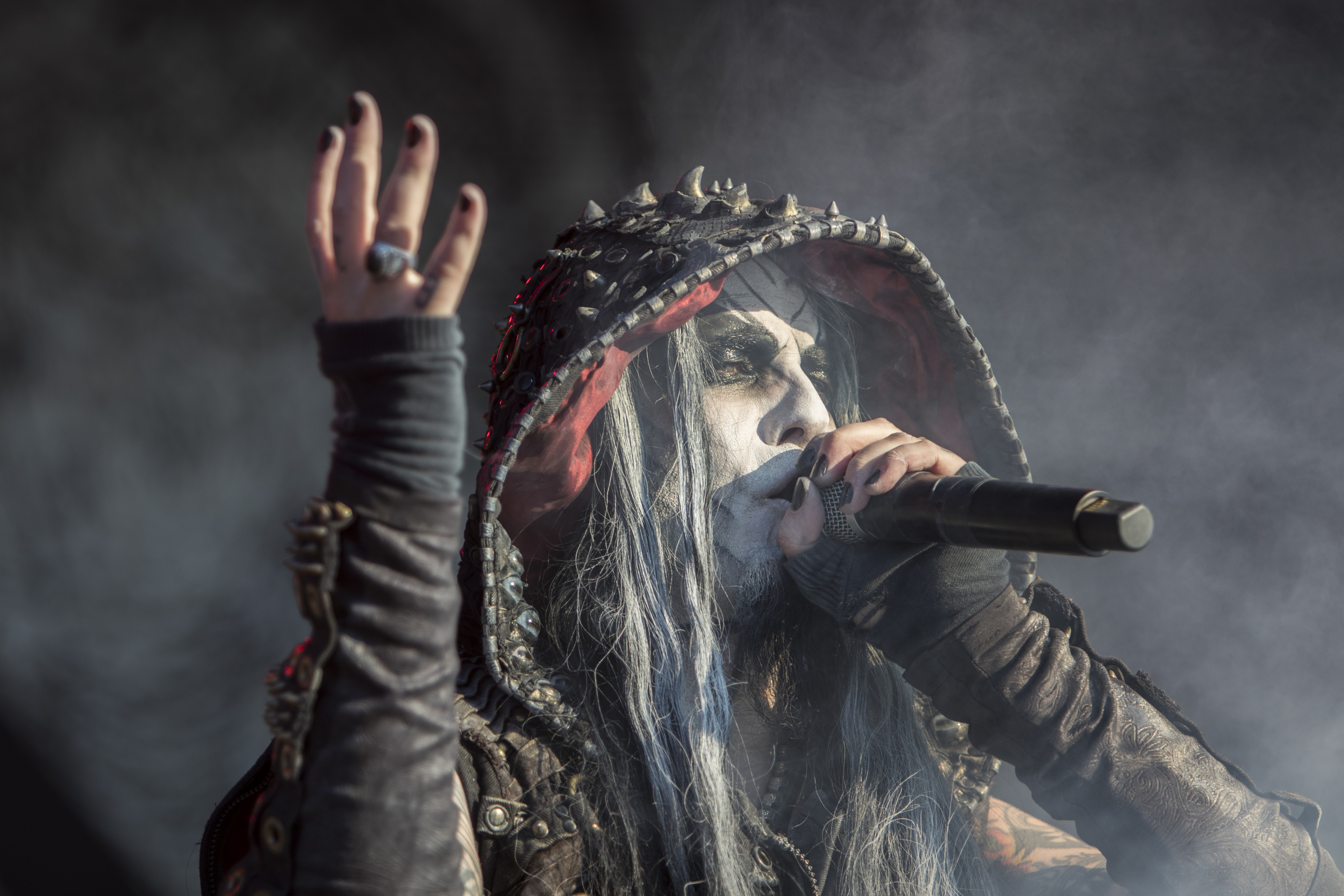 Dimmu Borgir at the 2019 Tuska Open Air Metal Festival in Helsinki, Finland (Kalasatama)